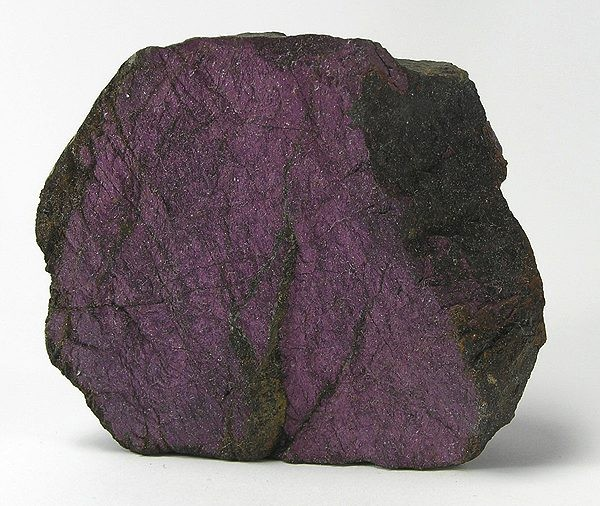 Purpurite Locality: Sandamab pegmatite (Sandamap pegmatite), Usakos, Karibib District, Erongo Region, Namibia (Locality at ) Size: 5.4 x 4.6 x 1.9 cm. Purpurite is the very rare phosphate of manganese, with specimens usually coming from the manganese-rich area of Southwest Africa. It is prized for both its rarity and its intense purple color. There is iridescent purpurite on both sides of this rich specimen! It came out of the Carlton Davis collection.